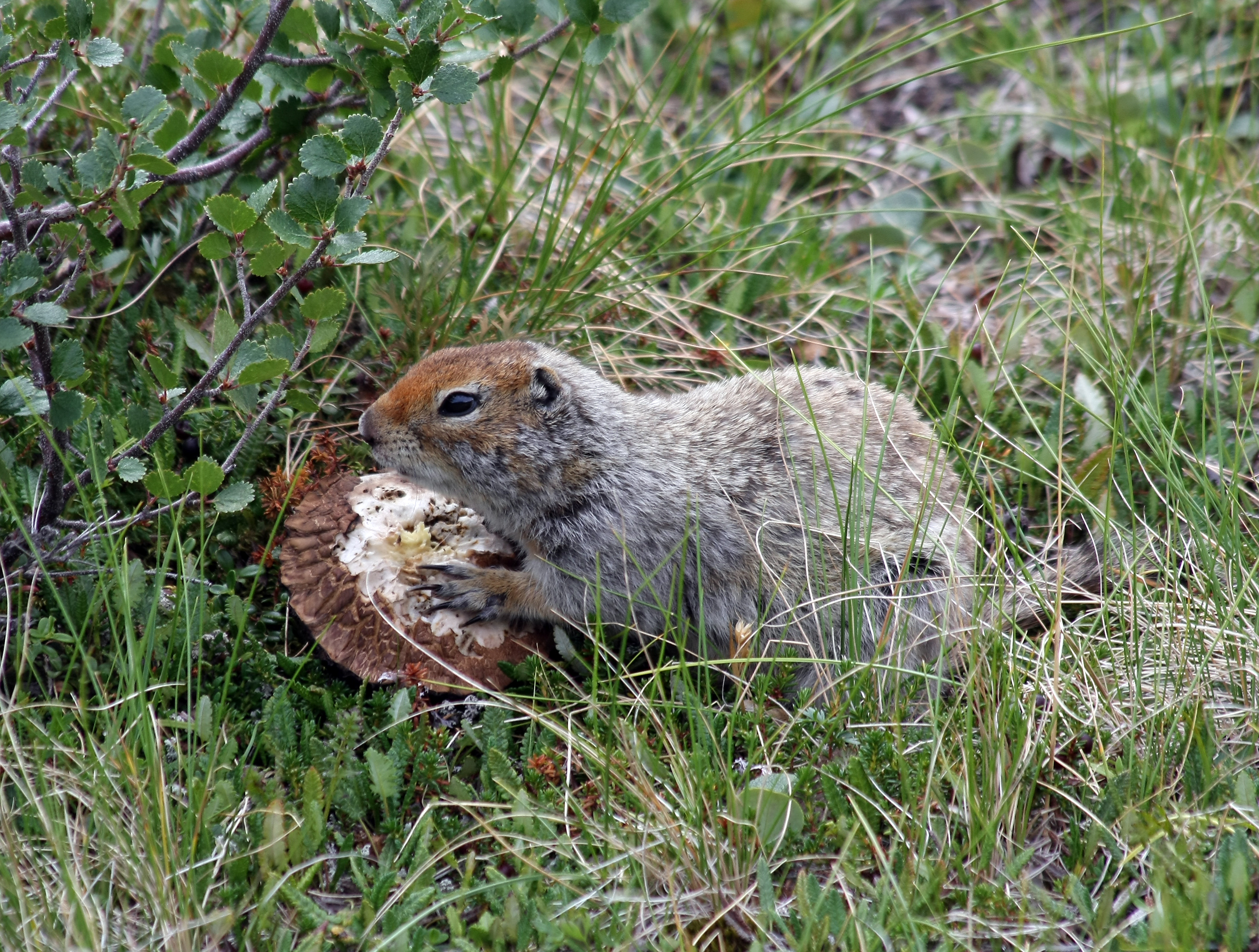 An Arctic Ground Squirrel eating a mushroom.